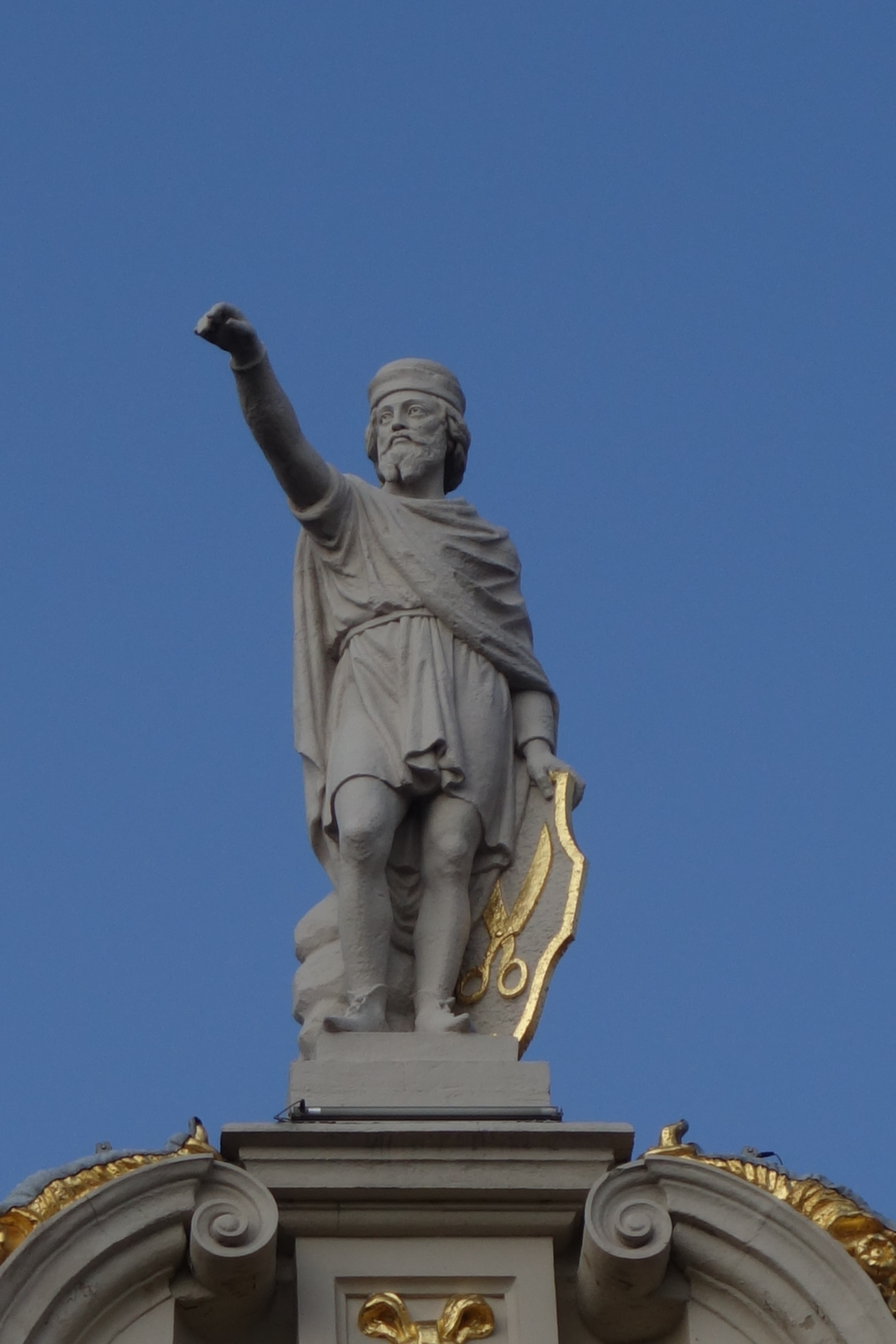 St Homobonus on the Golden Boat House